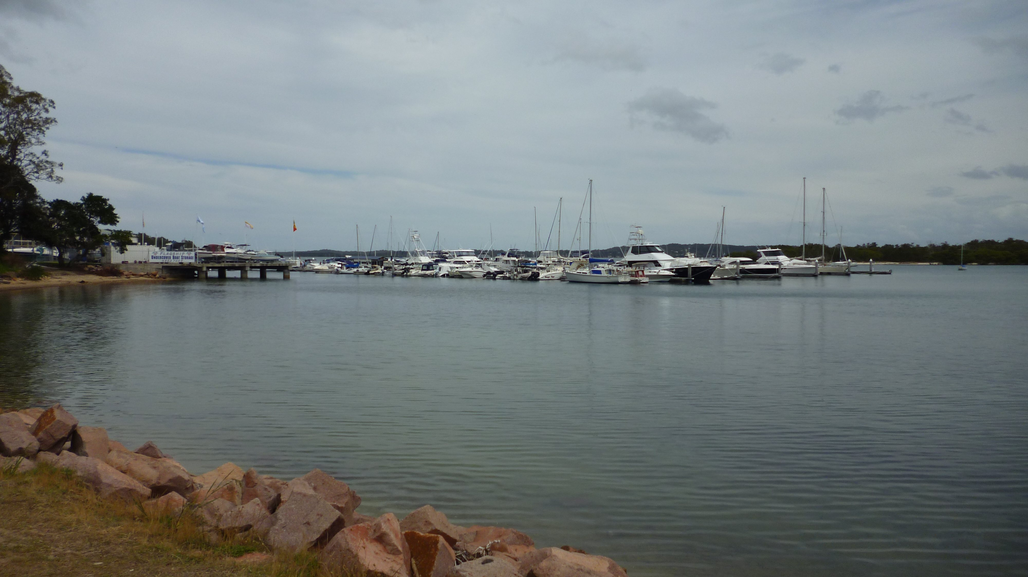 View of the marina on the western side of Soldiers Point in New South Wales, Australia. The camera was just south of the boat ramp on the northwestern tip of the point, looking roughly SSW. Behind the large boats, just to the right of centre, Lemon Tree Passage can be seen about 3.9 km (2.4 mi) away.